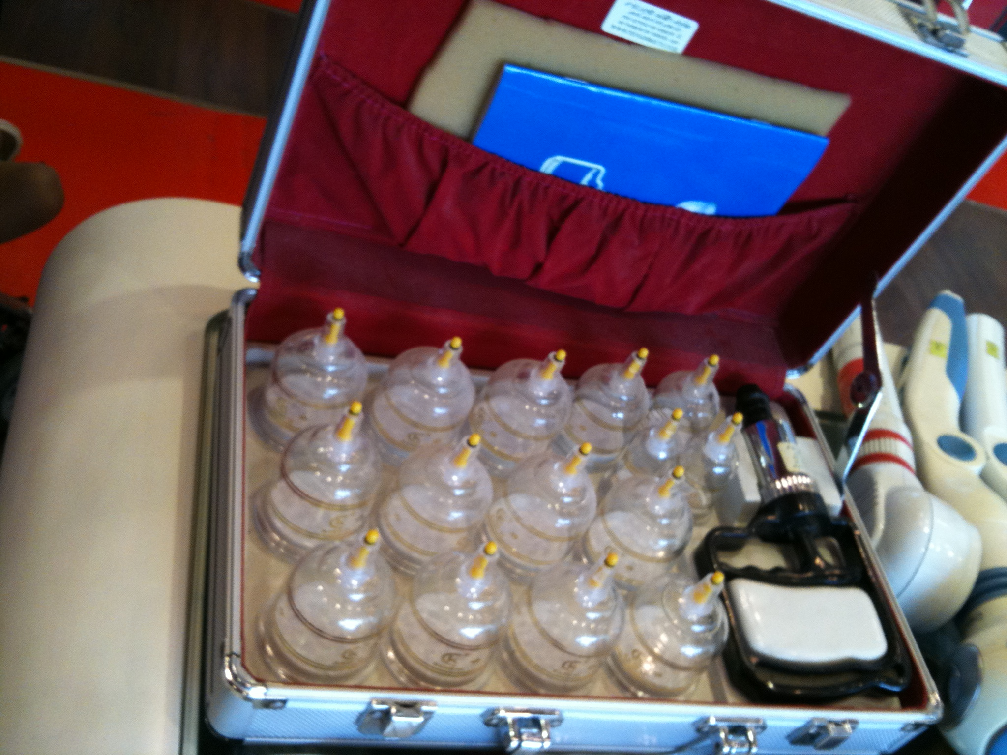 Fire cupping set for sale.